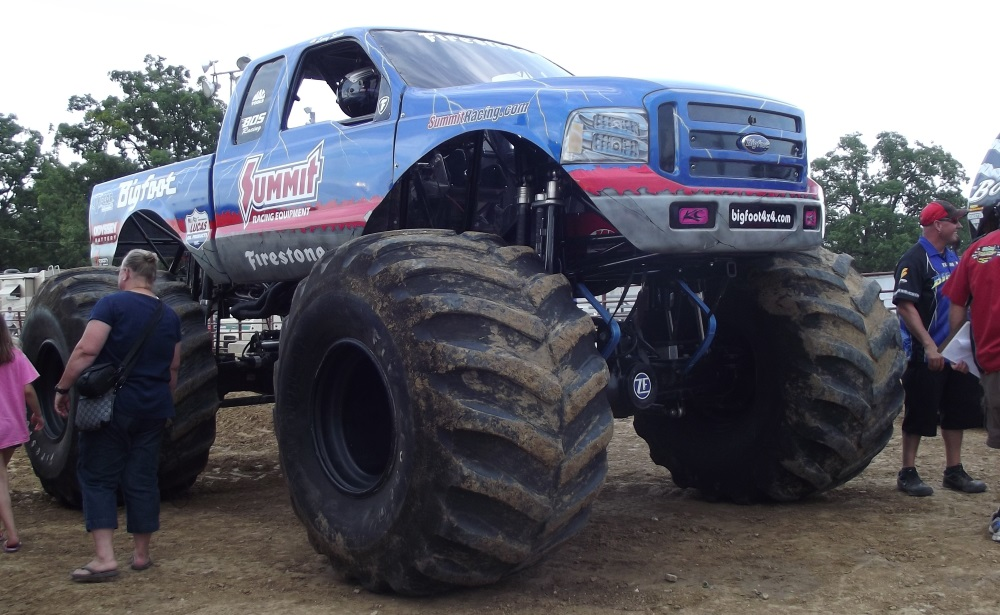 Bigfoot 16 in Jefferson City, MO.